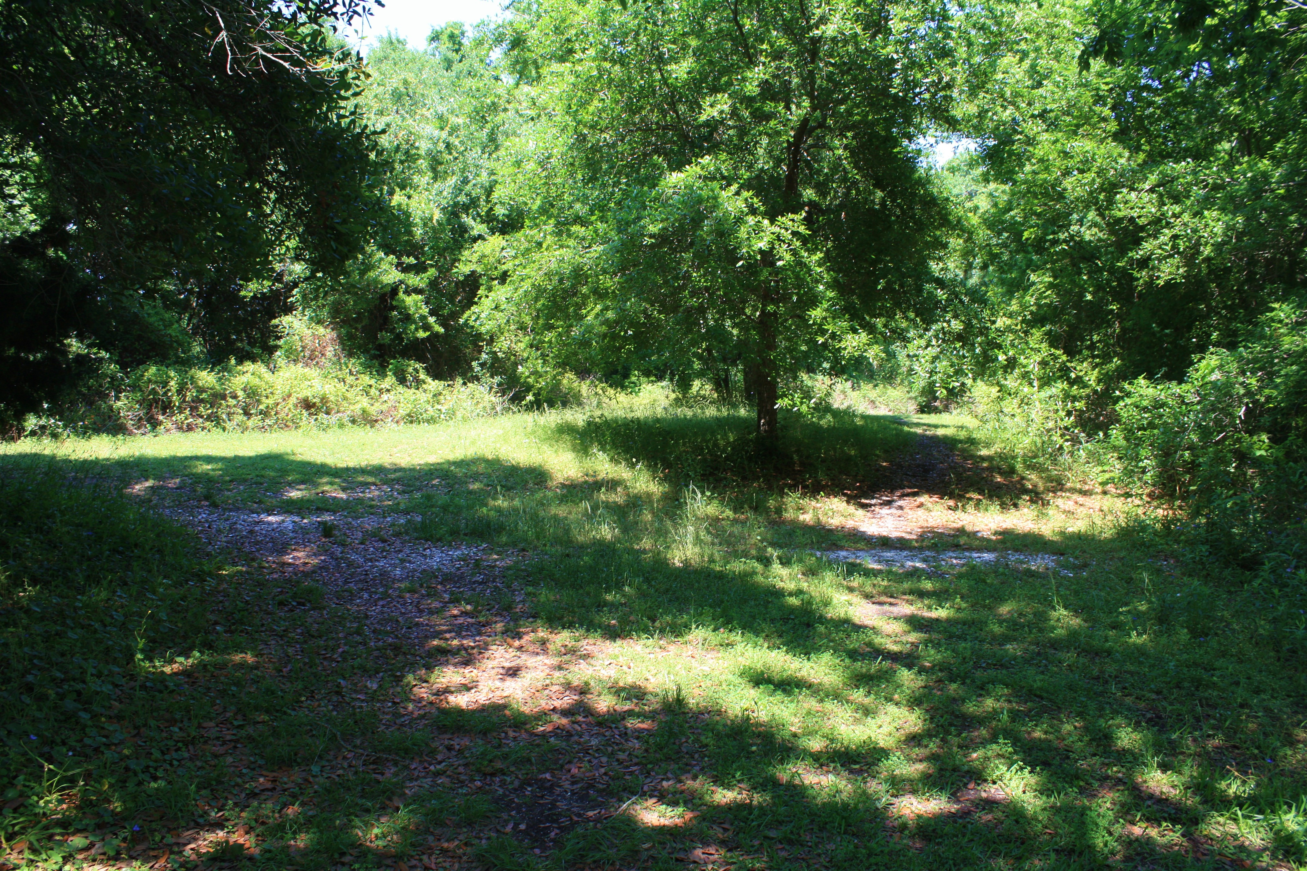 Indian Shell Mound Park on Dauphin Island, Mobile County, Alabama, United States. Individually listed on the National Register of Historic Places.